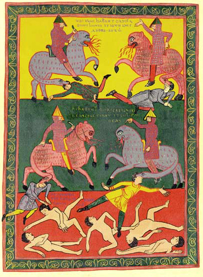 Folio 148v of the Apocalypse of St. Sever (St. Sever Beatus), The horses with heads of lions.